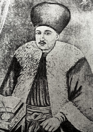 Grigorios Levitis (1777-1822): Greek musician